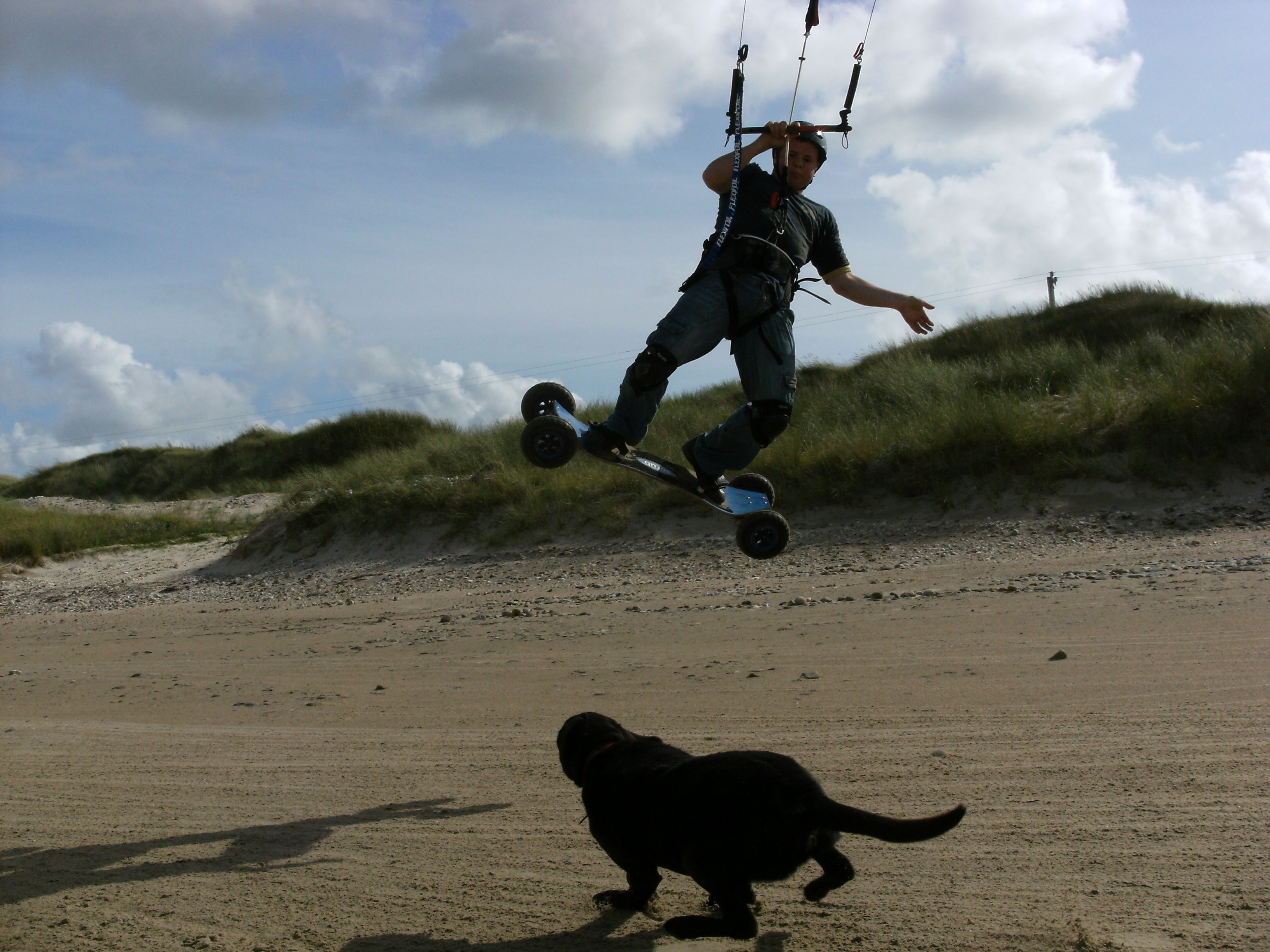 Kiteboarding on Claggan Beach, Erris.